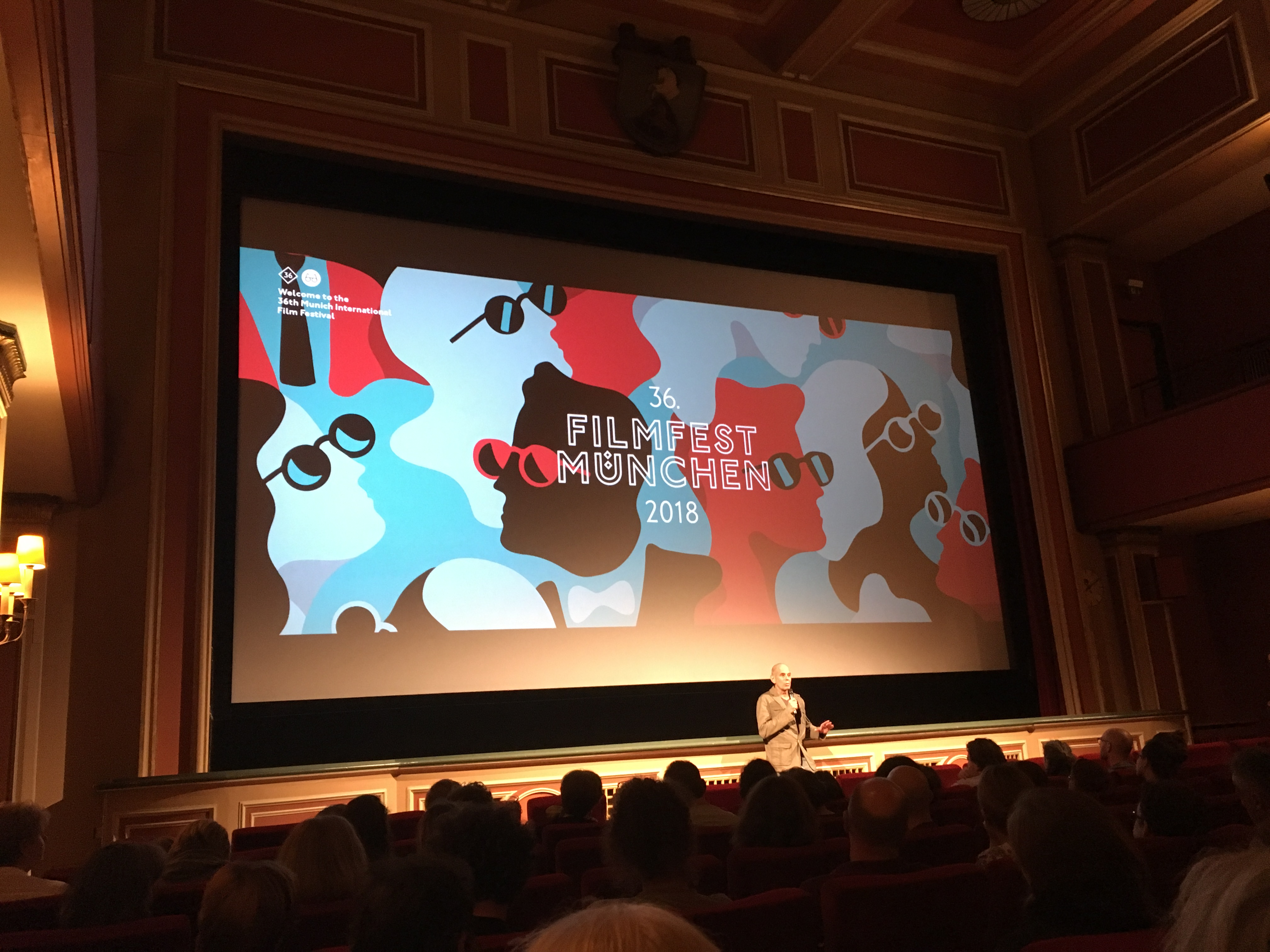 Israeli director Samuel Maoz presents his film "Foxtrot" (2017) at Filmfest München (International Film Festival in Munich, Germany) at Sendlinger Tor Filmtheater. This is a German premiere of this film.